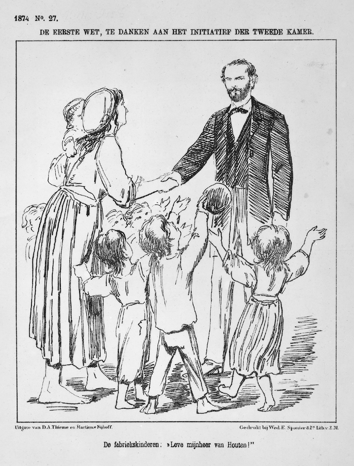 A copy of this print is also kept in the Internationaal Instituut voor Sociale Geschiedenis, Amsterdam.